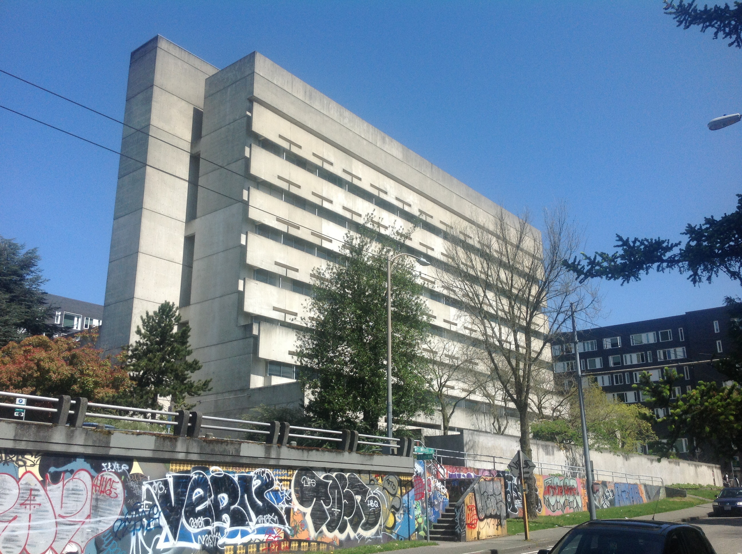 Condon Hall, University of Washington Seattle Campus